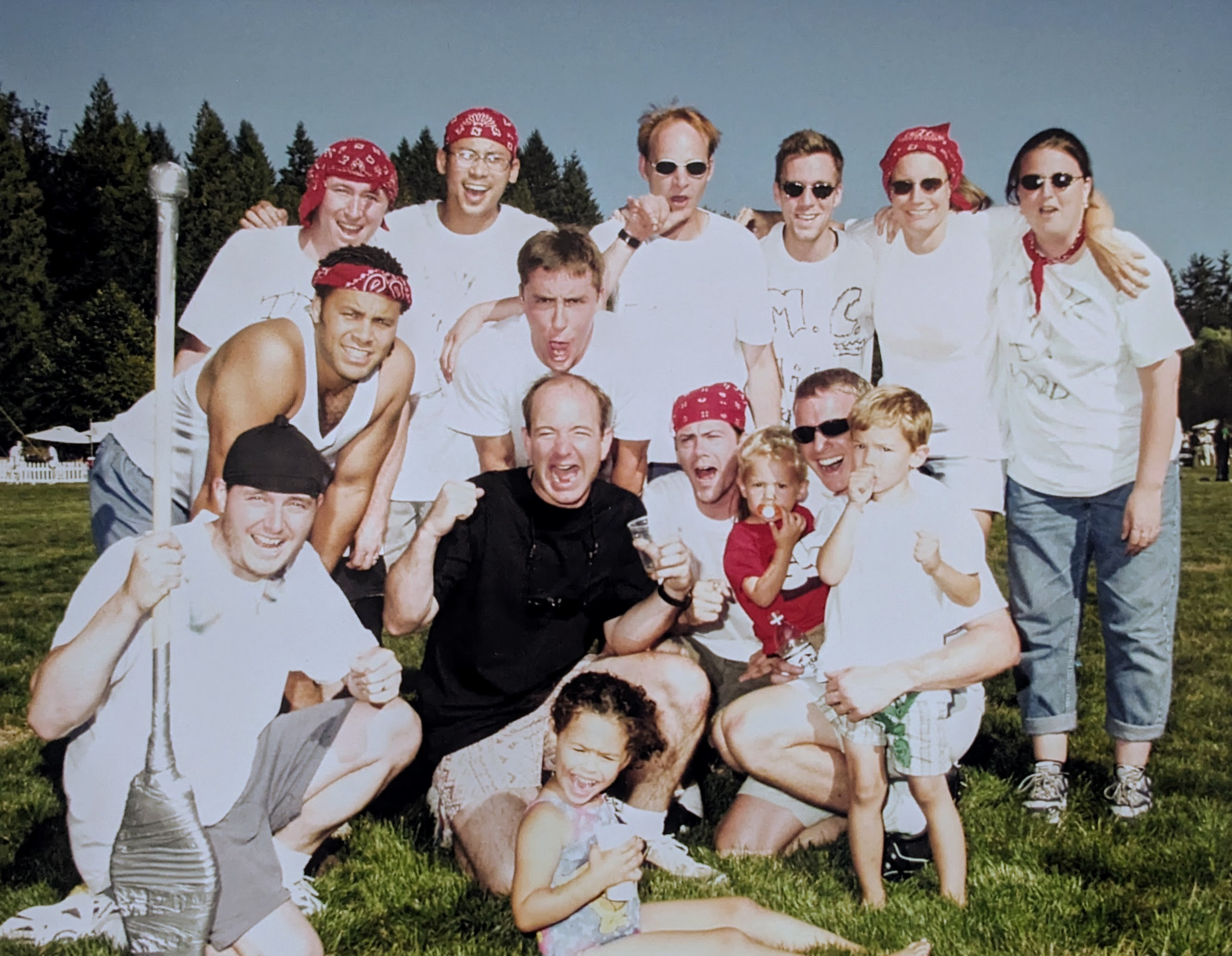 Photograph of Amazon Toys Team circa summer 2000 with Jeff Bezos. Shawn Chittle, a web developer and the owner of this photograph is pictured top row, third from right. Duke B, an Amazonian legend, is pictured top row, second from the left.